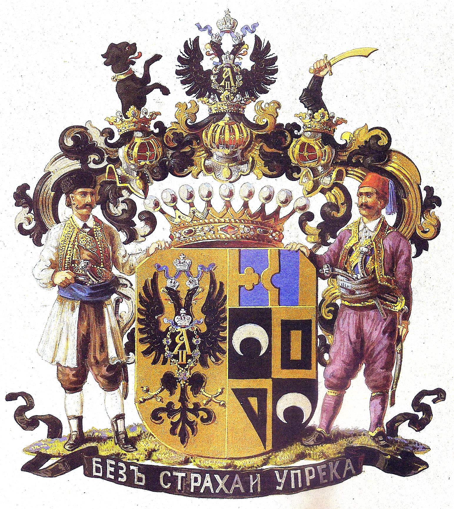 Coat of Arms of counts Miloradovich